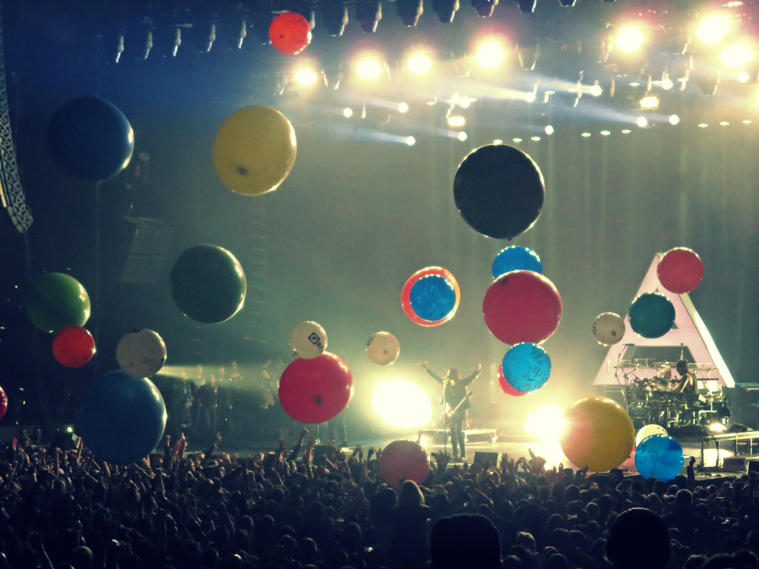 Thirty Seconds to Mars performing at the Allstate Arena in Rosemont, Illinois on December 11, 2013